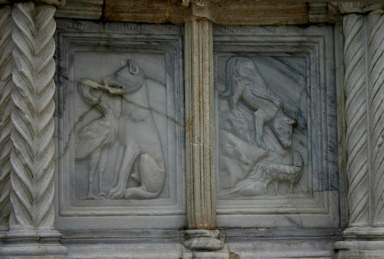 Perugia, the Fontana Maggiore (Main Fountain), sculpted after 1275 by Nicola Pisano and Giovanni Pisano. Two tales by Aesop: "The crane and the wolf", and "The wolf and the lamb". Picture by Giovanni Dall'Orto, August 5, 2006.